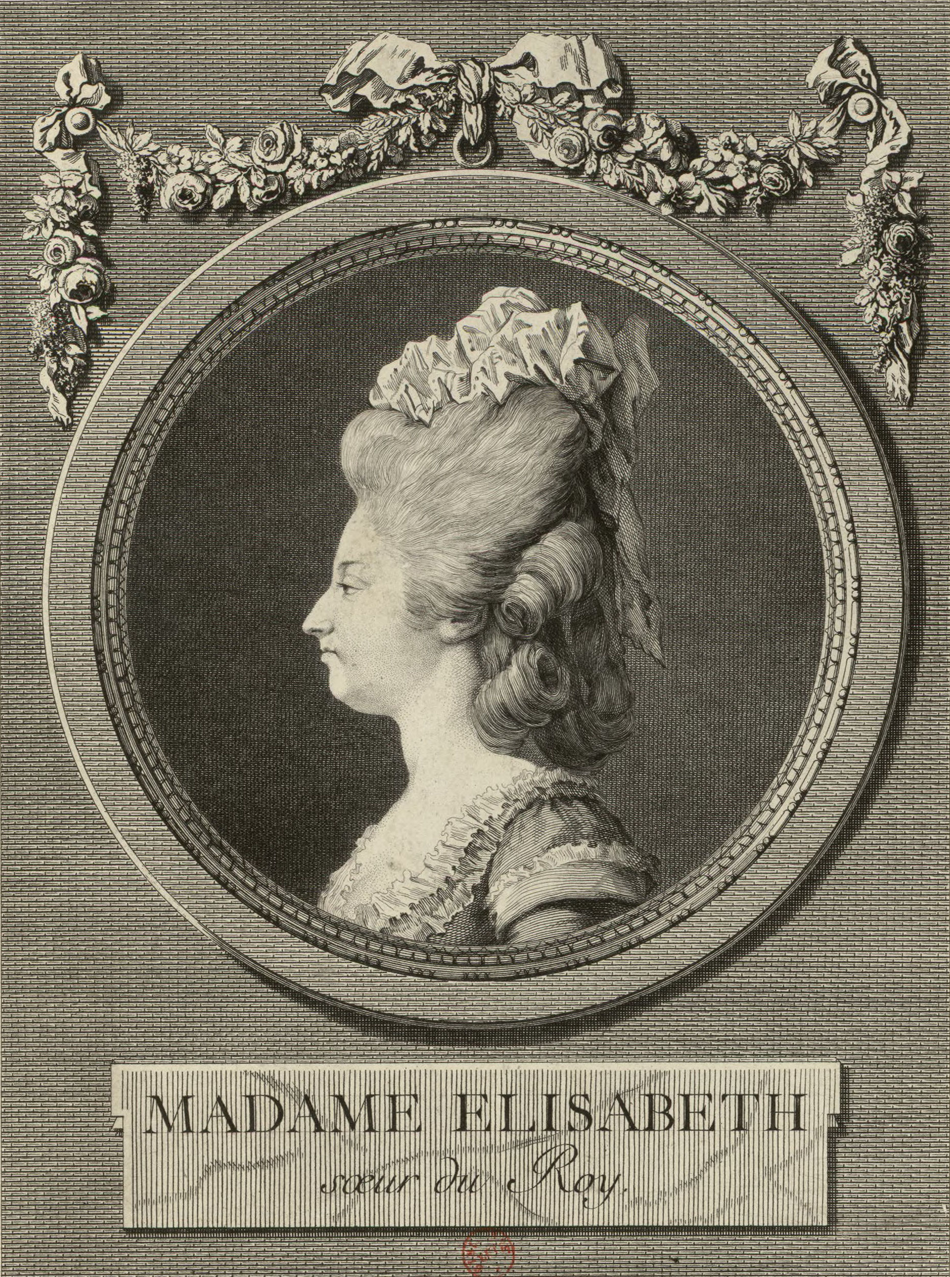 Portrait of Princess Élisabeth of France (1764-1794)